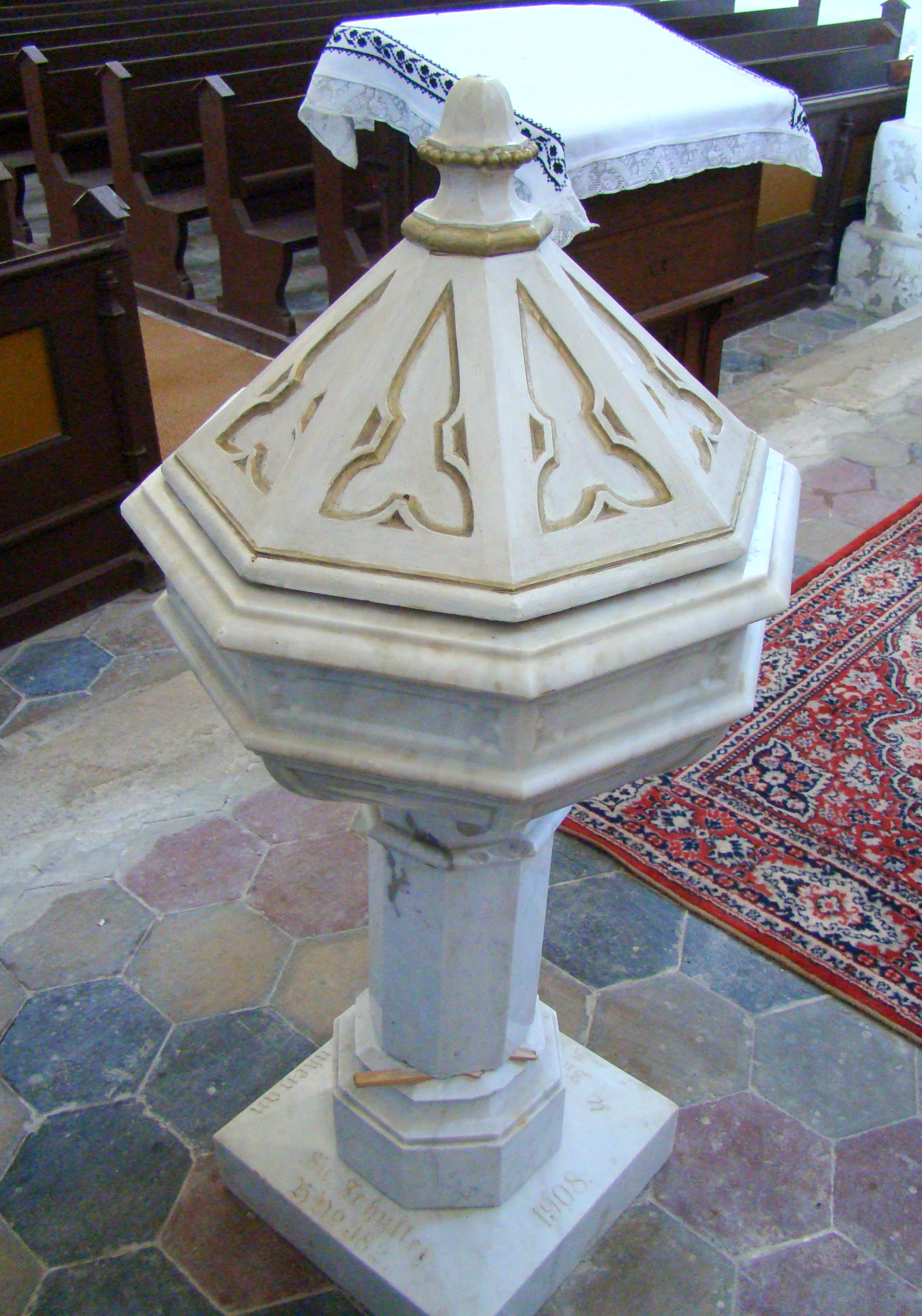 Lutheran church in Dedrad, Mureş county, Romania